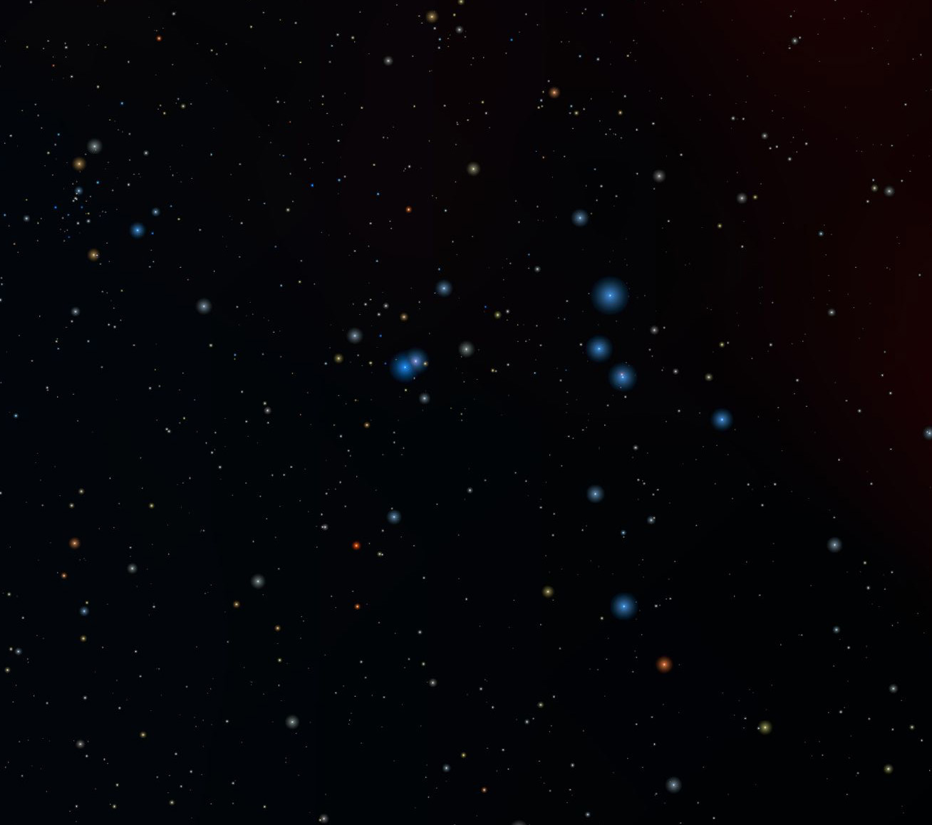 Free screen from Perseus (as written in Readme file)